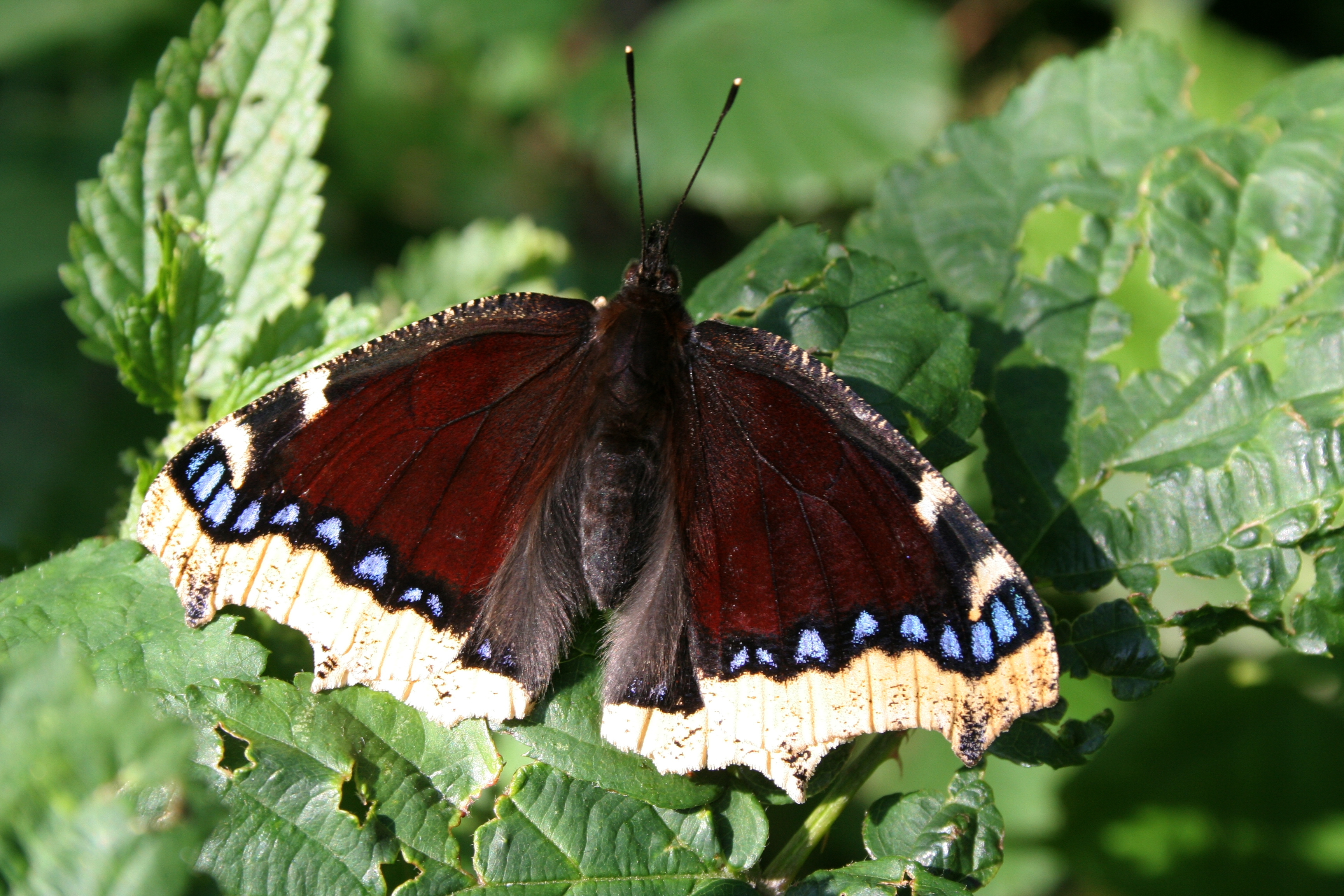 Nymphalis antiopa buterfly.